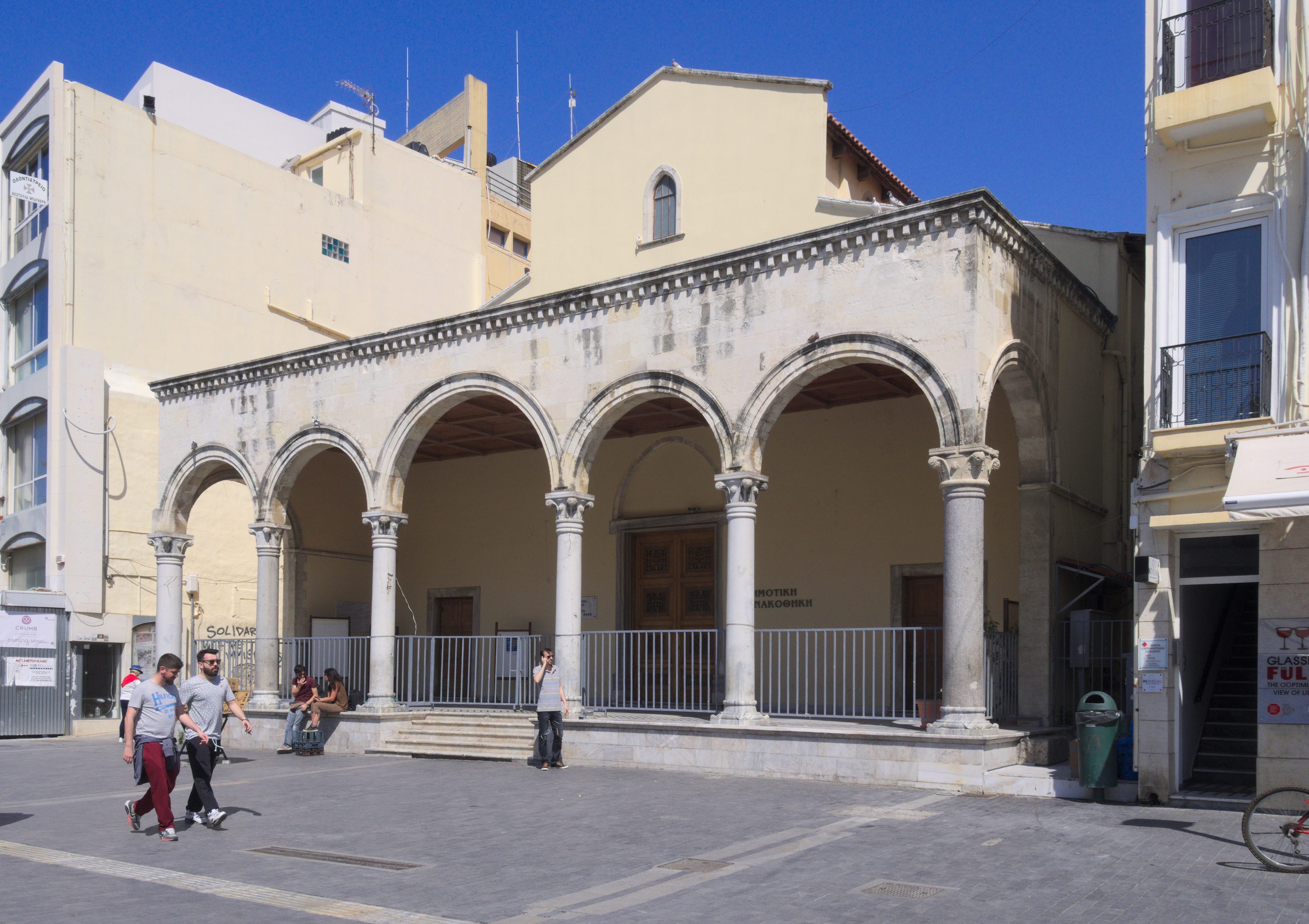 The Saint Mark's basilica at the central square of Heraklion. The cathedral of Heraklion during the venetian era, now houses the museum of visual arts.